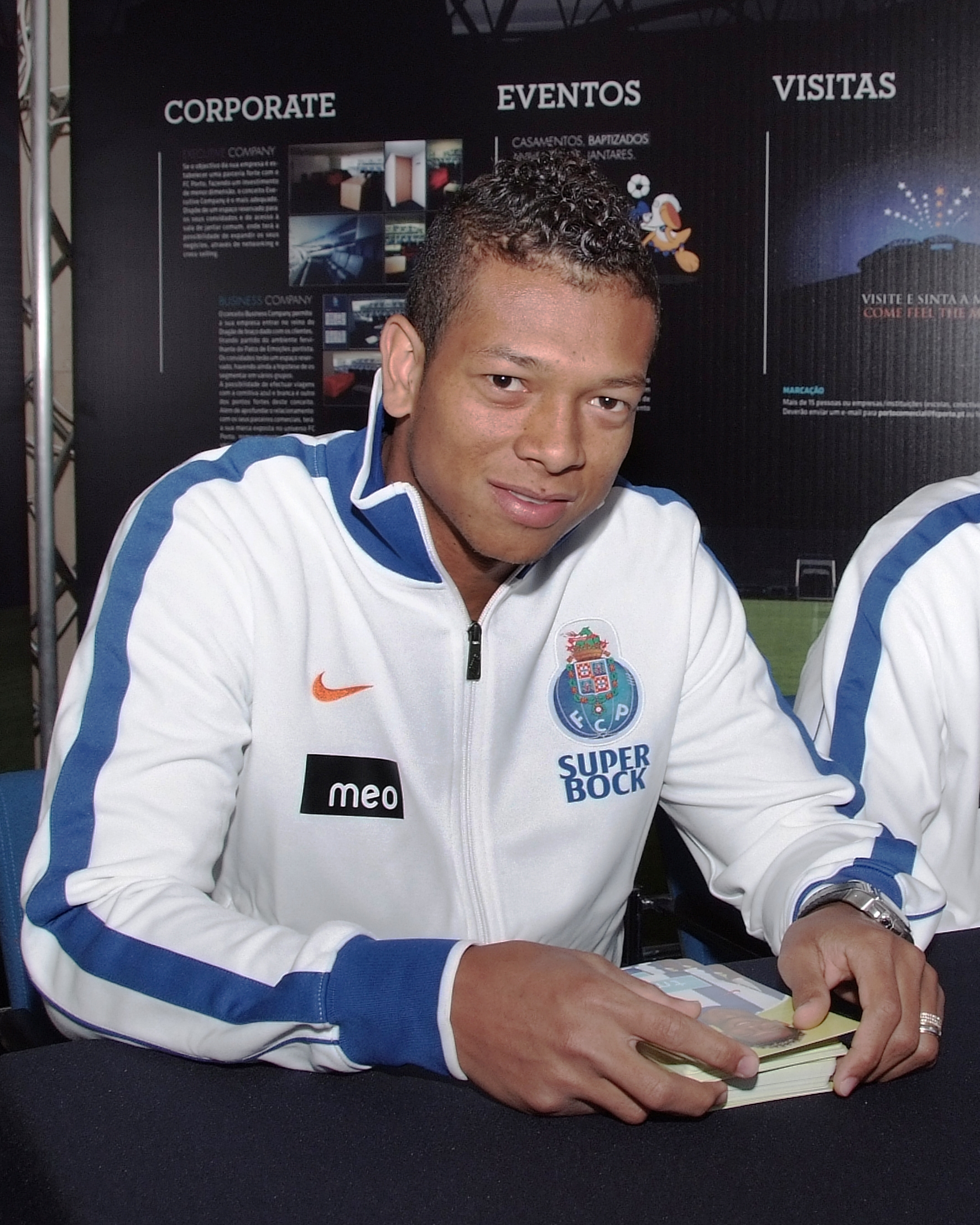 Football player Freddy Guarín at an Exponor exhibition, in Porto, Portugal.